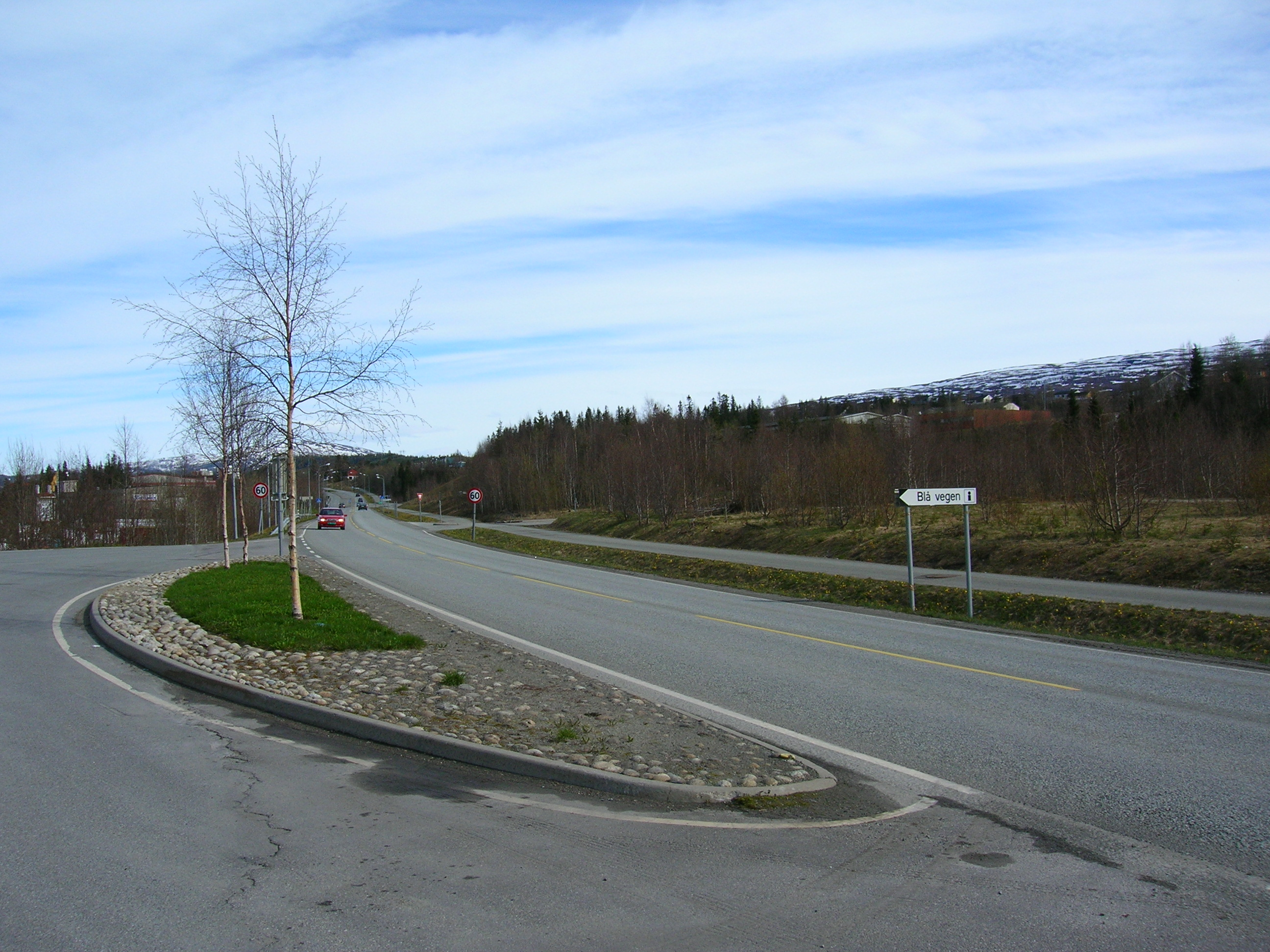 The Blue road (Blå vägen), E12, passing Gruben, Rana municipality, Nordland, Norway, Photo May 14, 2007 with a Nikon Coolpix 5600 5,1 Megapixel camera.